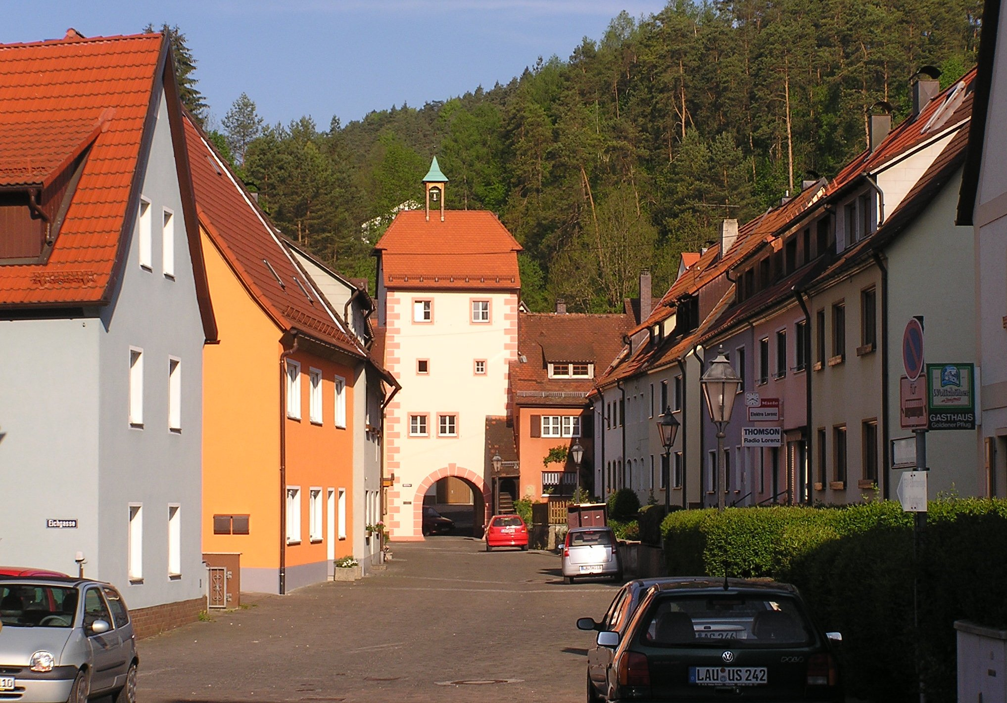 The tower of the german town Velden (Pegnitz) in Middle Franconia, Bavaria, Germany.